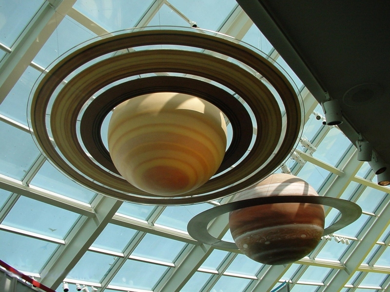 Adler Planetarium, Chicago, Illinois, USA